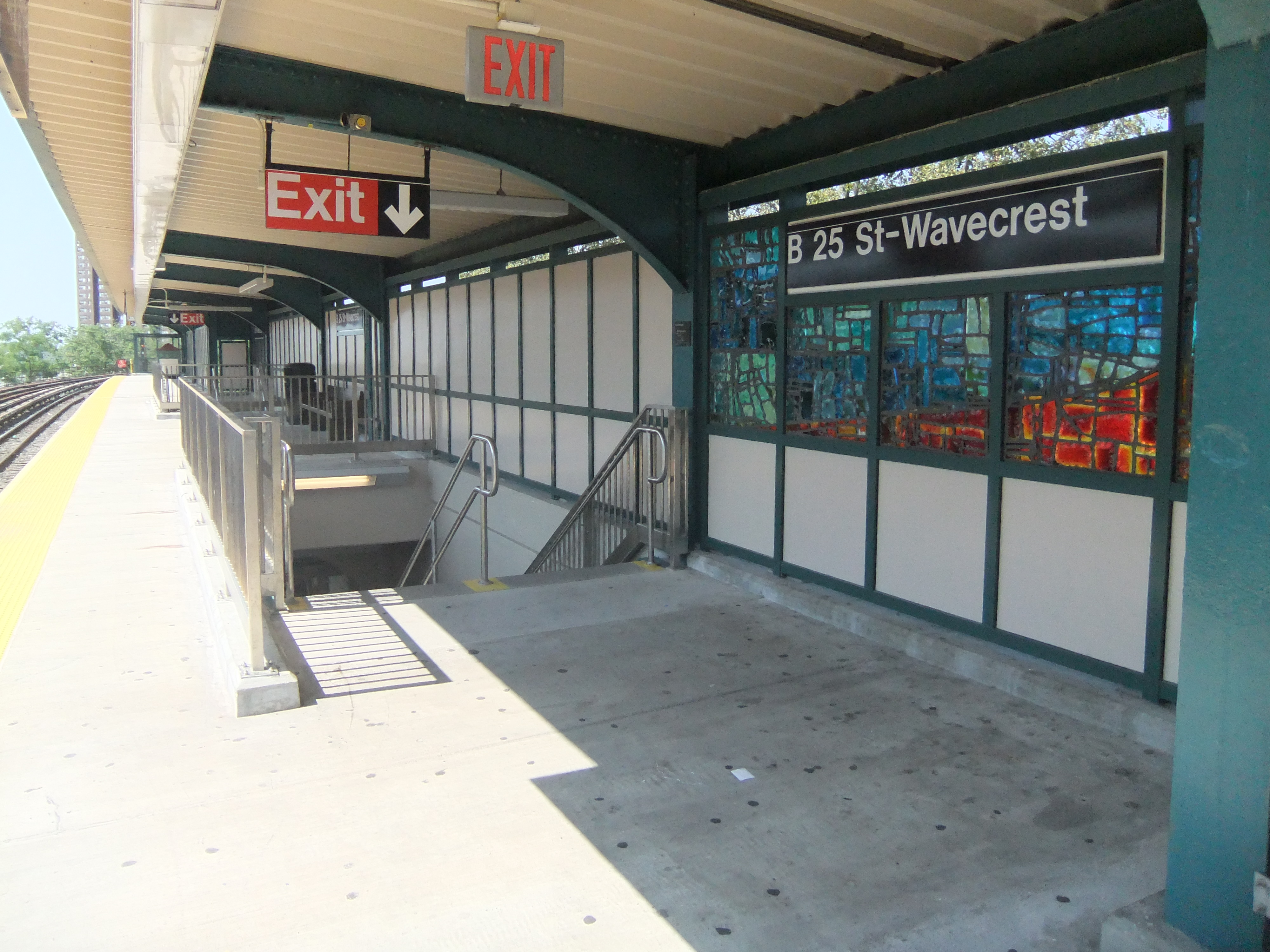 207th Street bound platform at Beach 25th Street - Wavecrest.